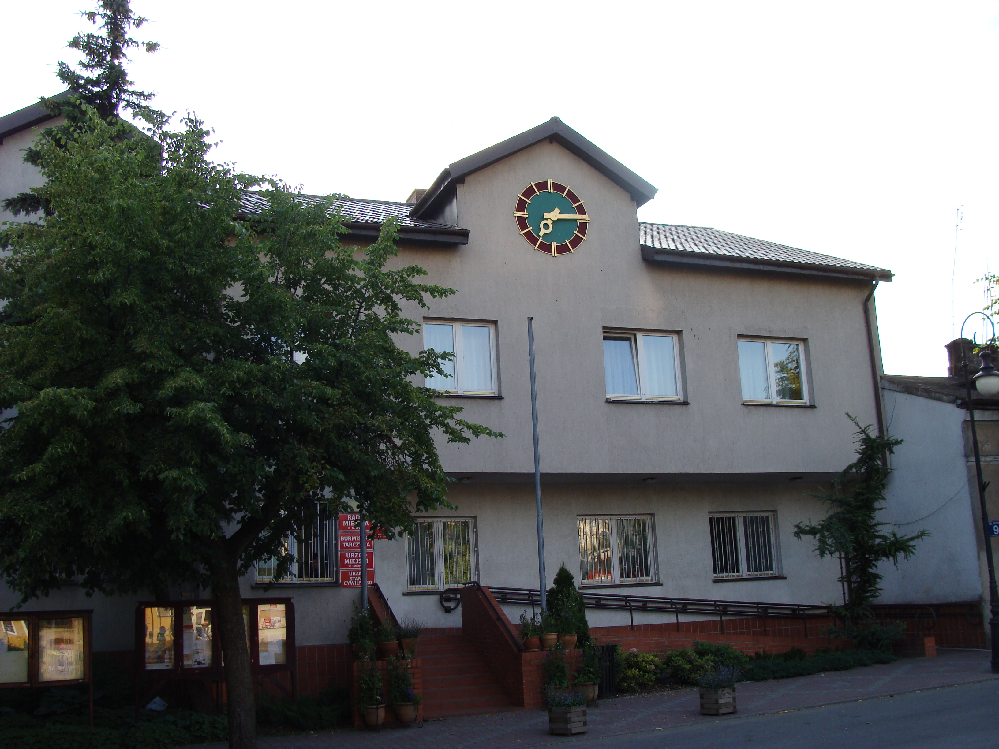 City office in Tarczyn